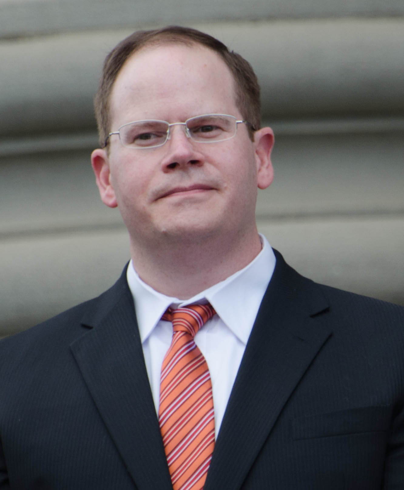 Cam Westhead at the 2015 Alberta Premier/Cabinet swearing-in ceremony, by Connor Mah.